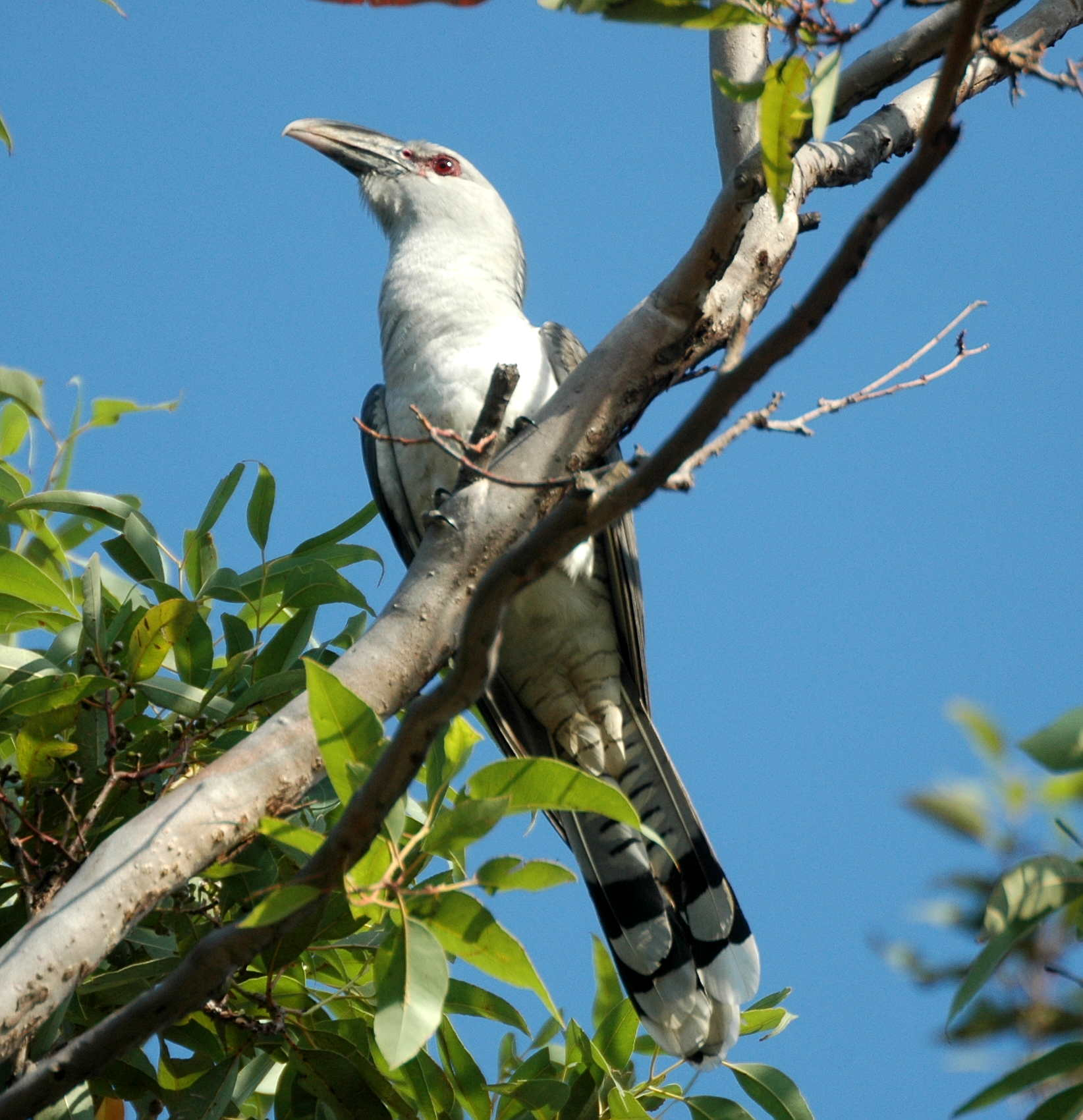 Channel-billed Cuckoo Scythrops novaehollandiae Kobble Creek, SE Queensland, Australia